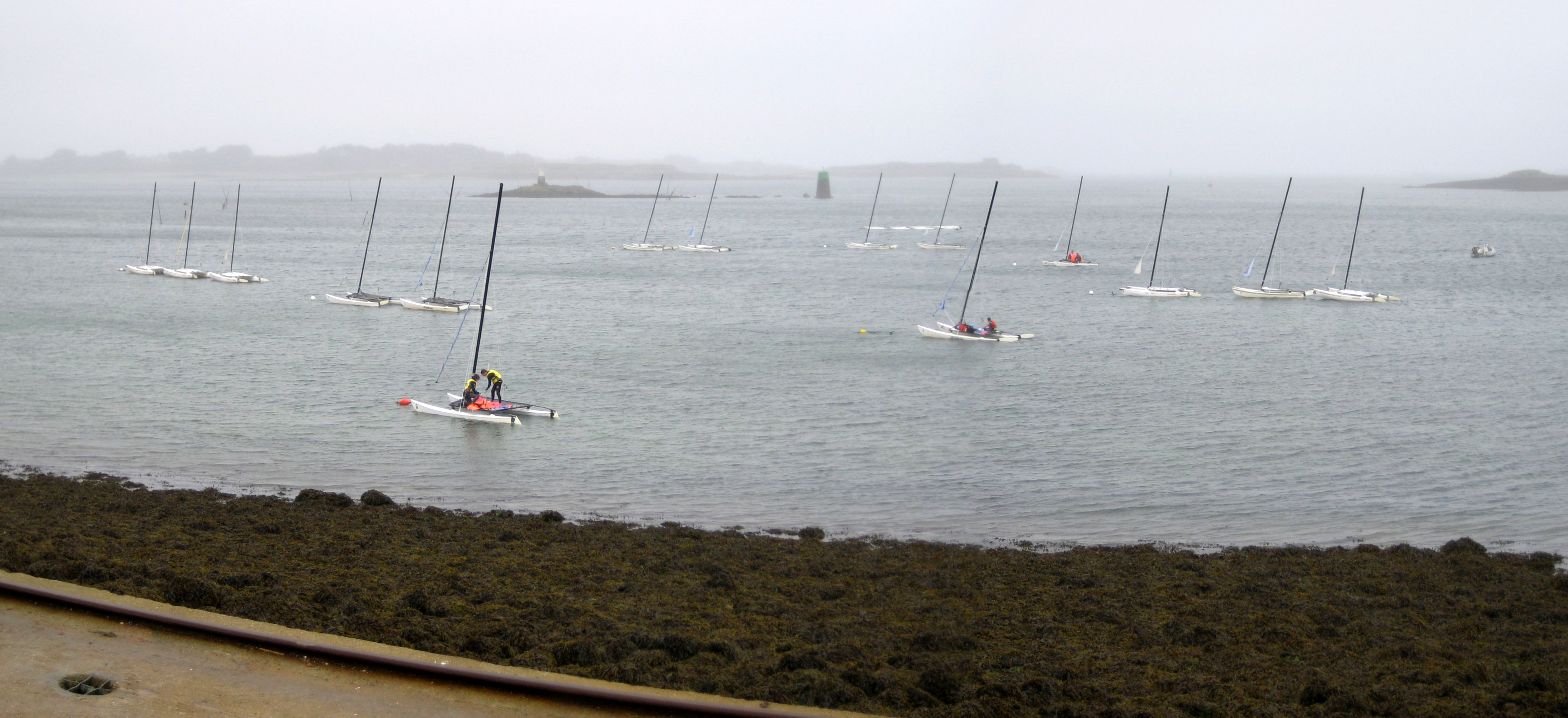 L'Aber Wrac'h, Catamaran